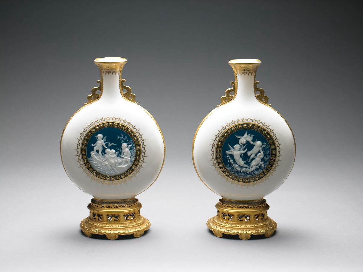 A pair of china vases made at the Minton pottery manufactory in Staffordshire, England. Created in the pâte sur pâte technique, the decoration of the vases is attributed to Henry Hollins.